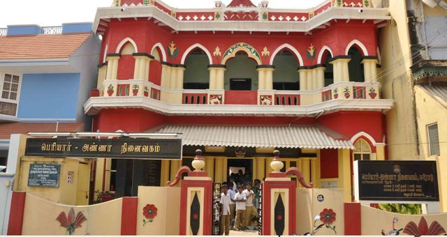 Periyar Anna Memorial House is located in Periyar Street, erode and this was the home which Thanthai Periyar lived.